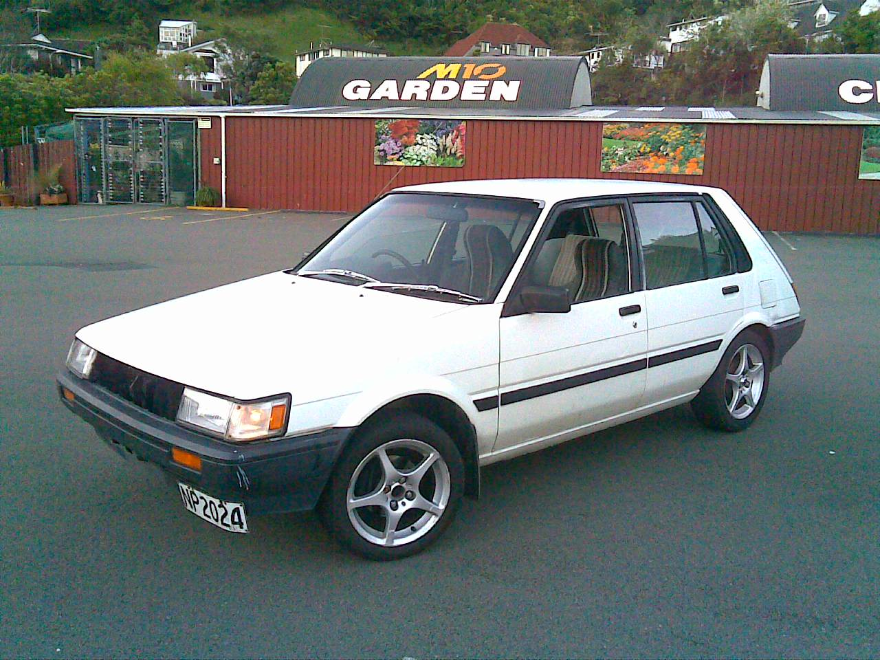 1987 Toyota Corolla (E80) hatchback, photographed in New Zealand.